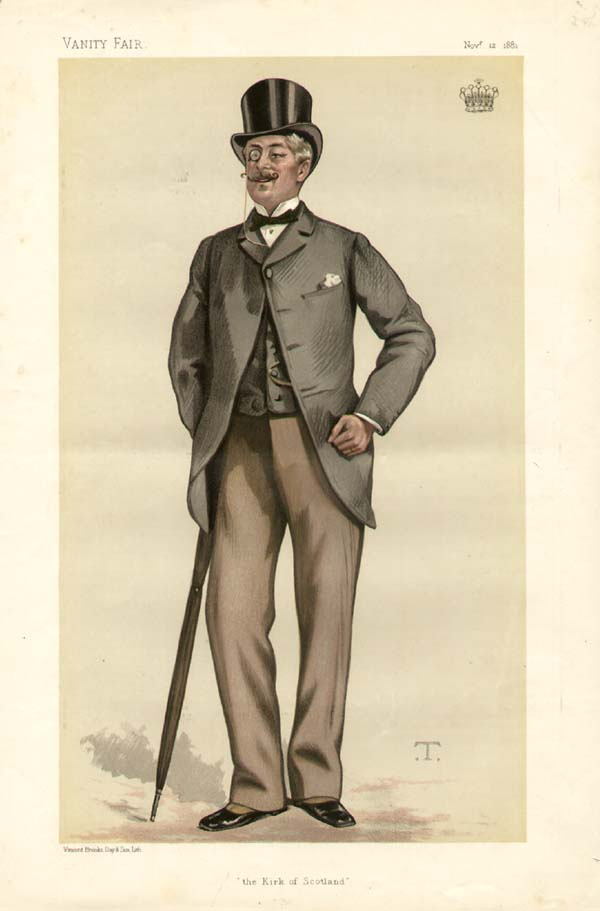 Caricature of Robert St Clair-Erskine, 4th Earl of Rosslyn. Caption read "The Kirk of Scotland".